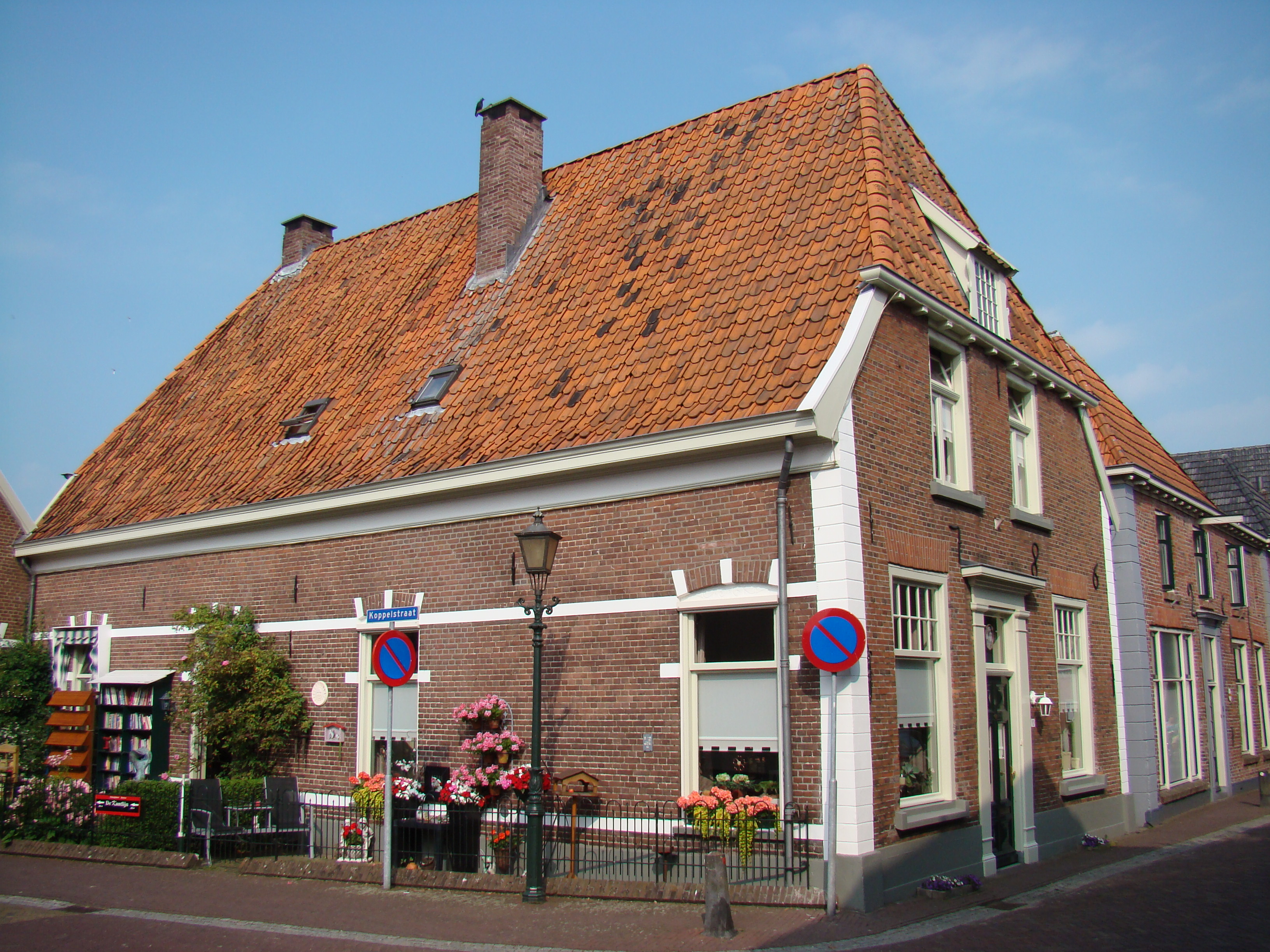 Monumental house at the Landstraat Bredevoort, Netherlands